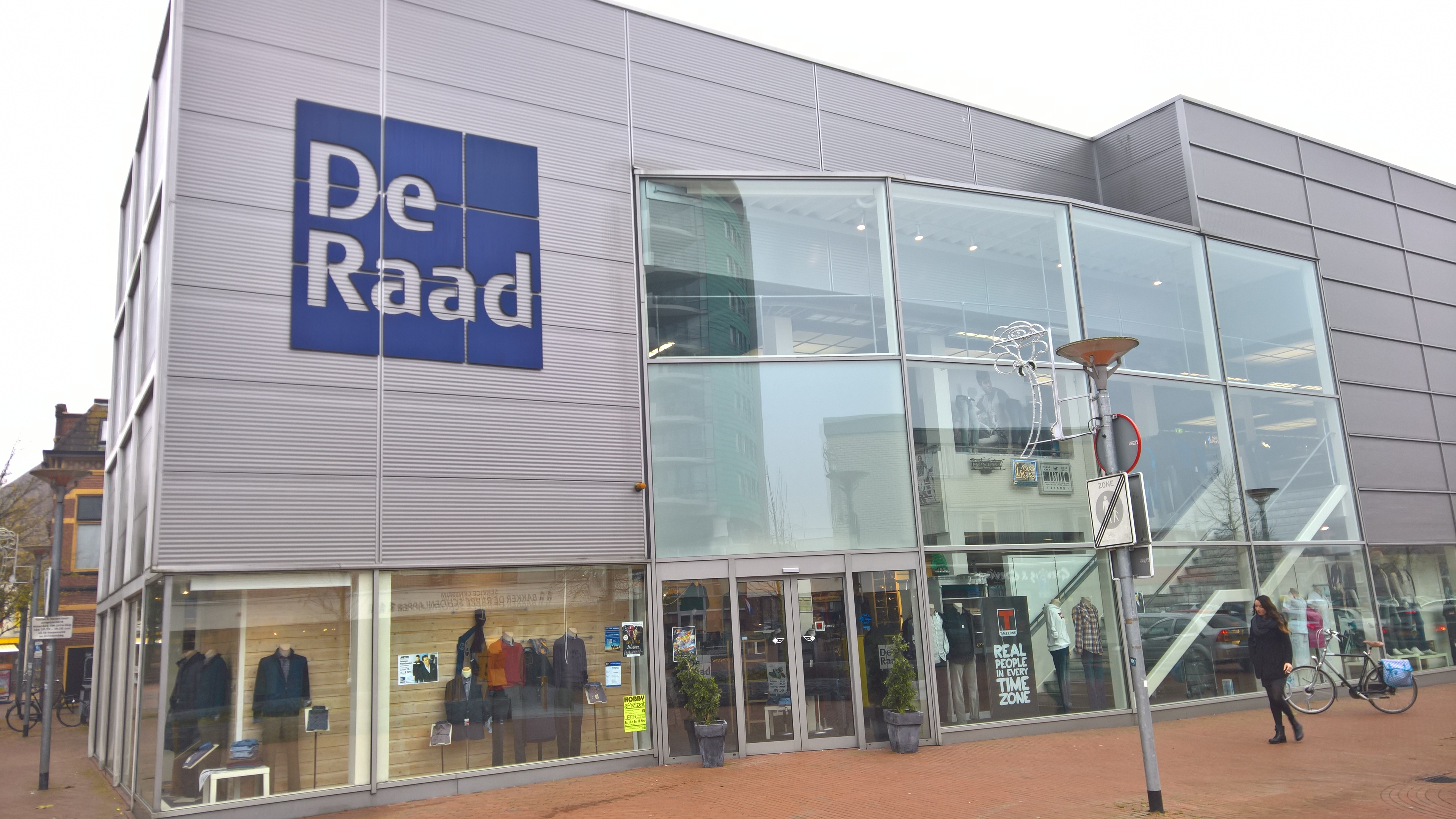 A clothing store 🏪 in the city 🏙 of Winschoten, Groningen.